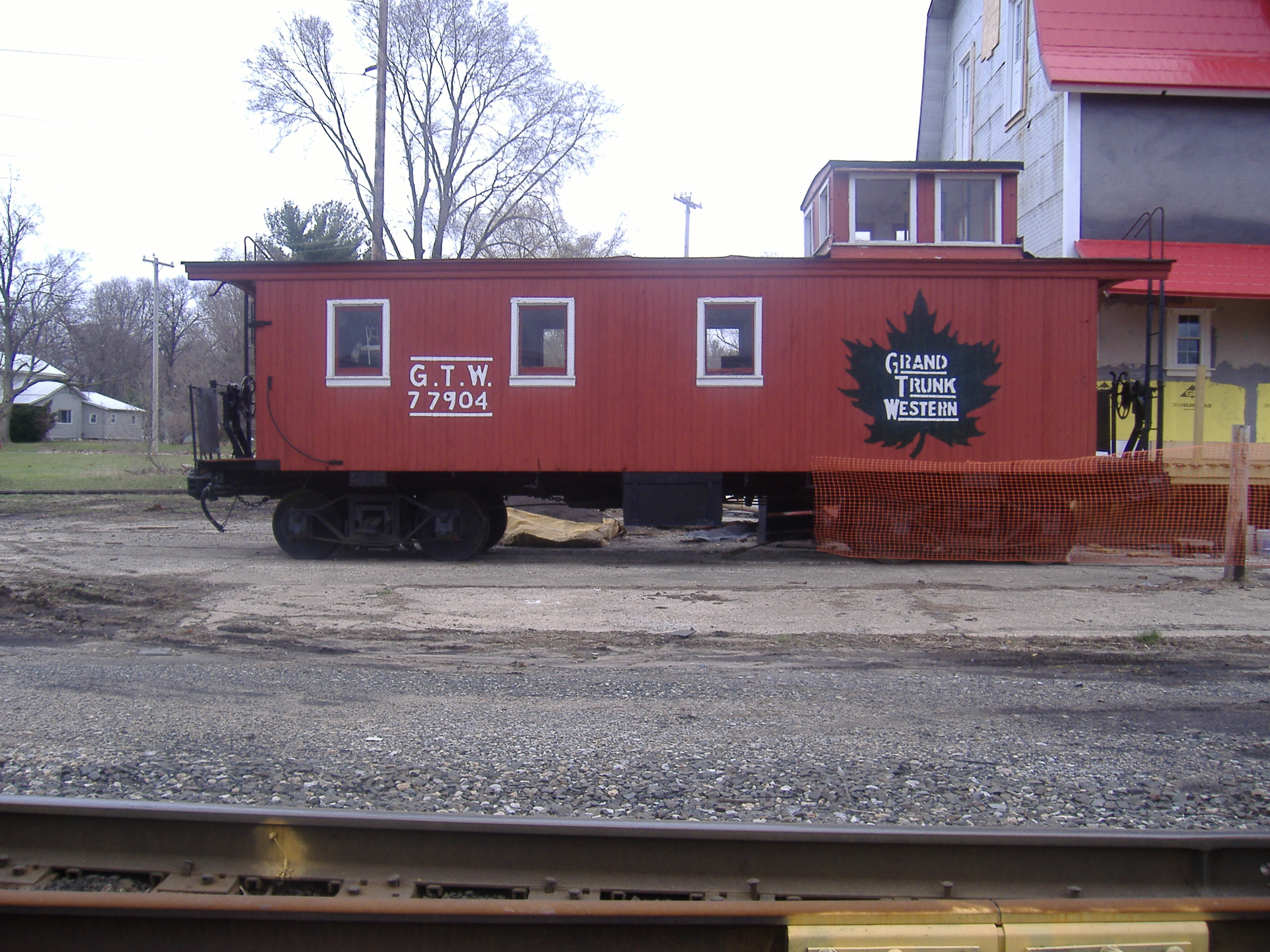 Grand Trunk Western Caboose. Photo taken April 9, 2008, Plainwell, Michigan.